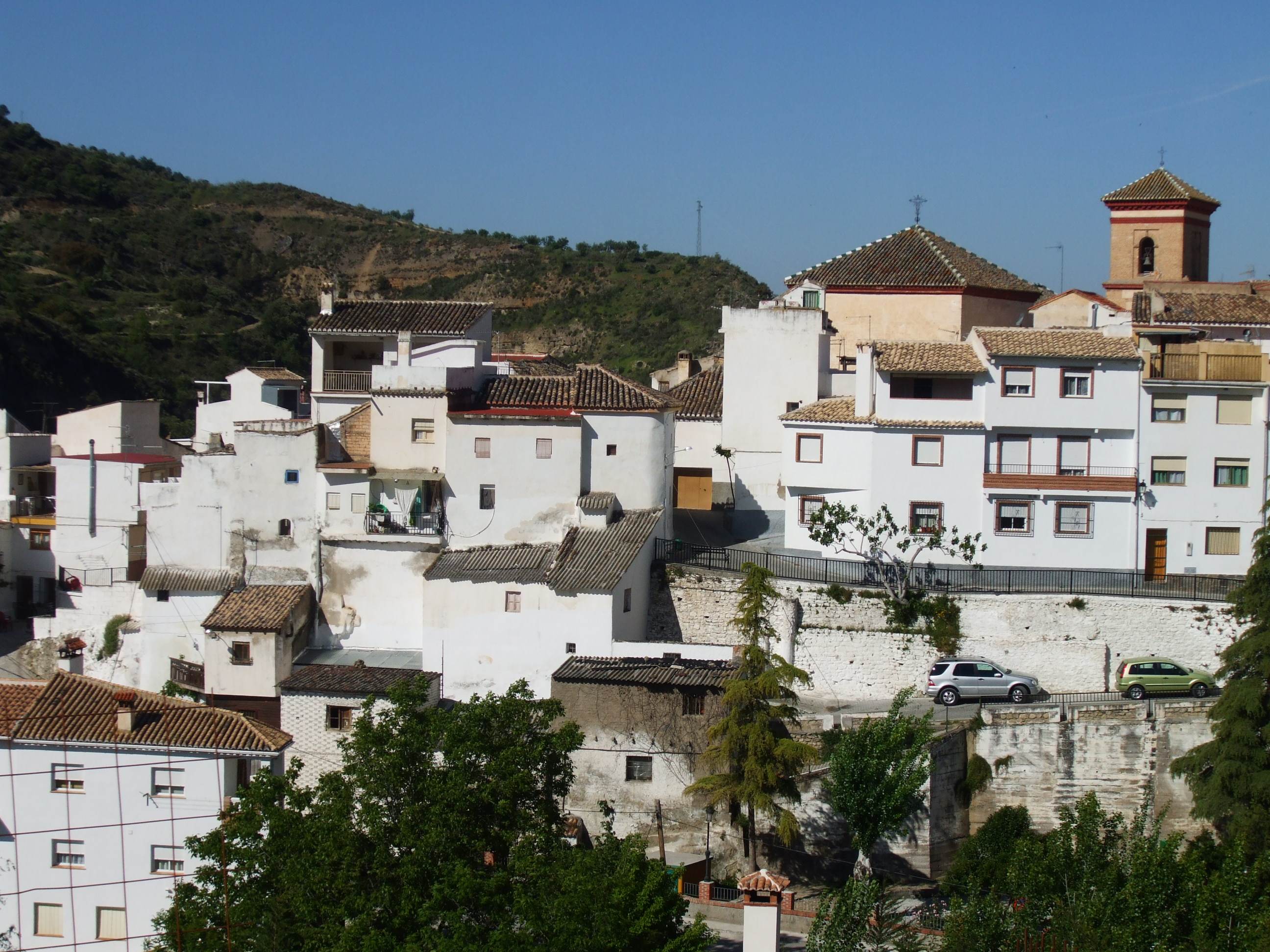 Quéntar, Granada, Spain